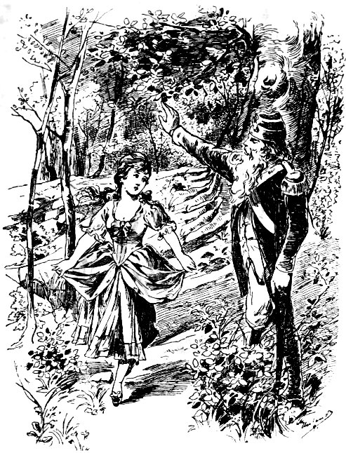 picture from the book: Hans Christian Andersen "Baśnie", Gebethner i Wolff, Warszawa 1899